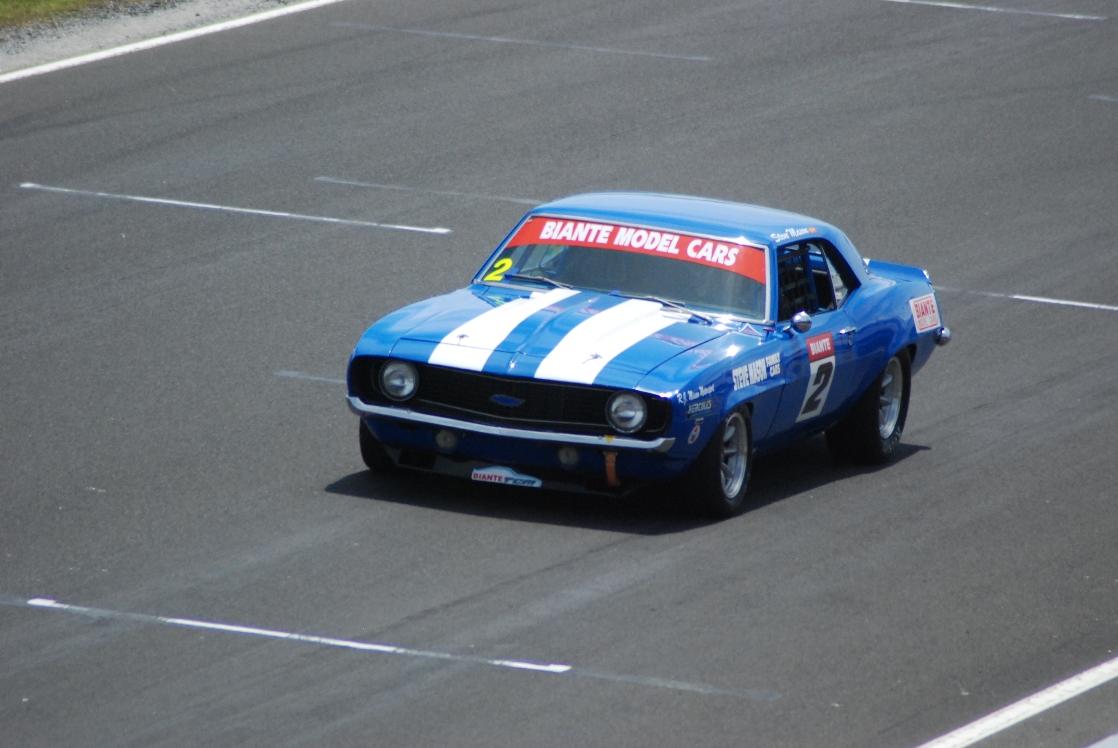 The 1969 Chevrolet Camaro of Steve Mason at the Phillip Island round of the 2007 Biante Touring Car MastersDSC_0151